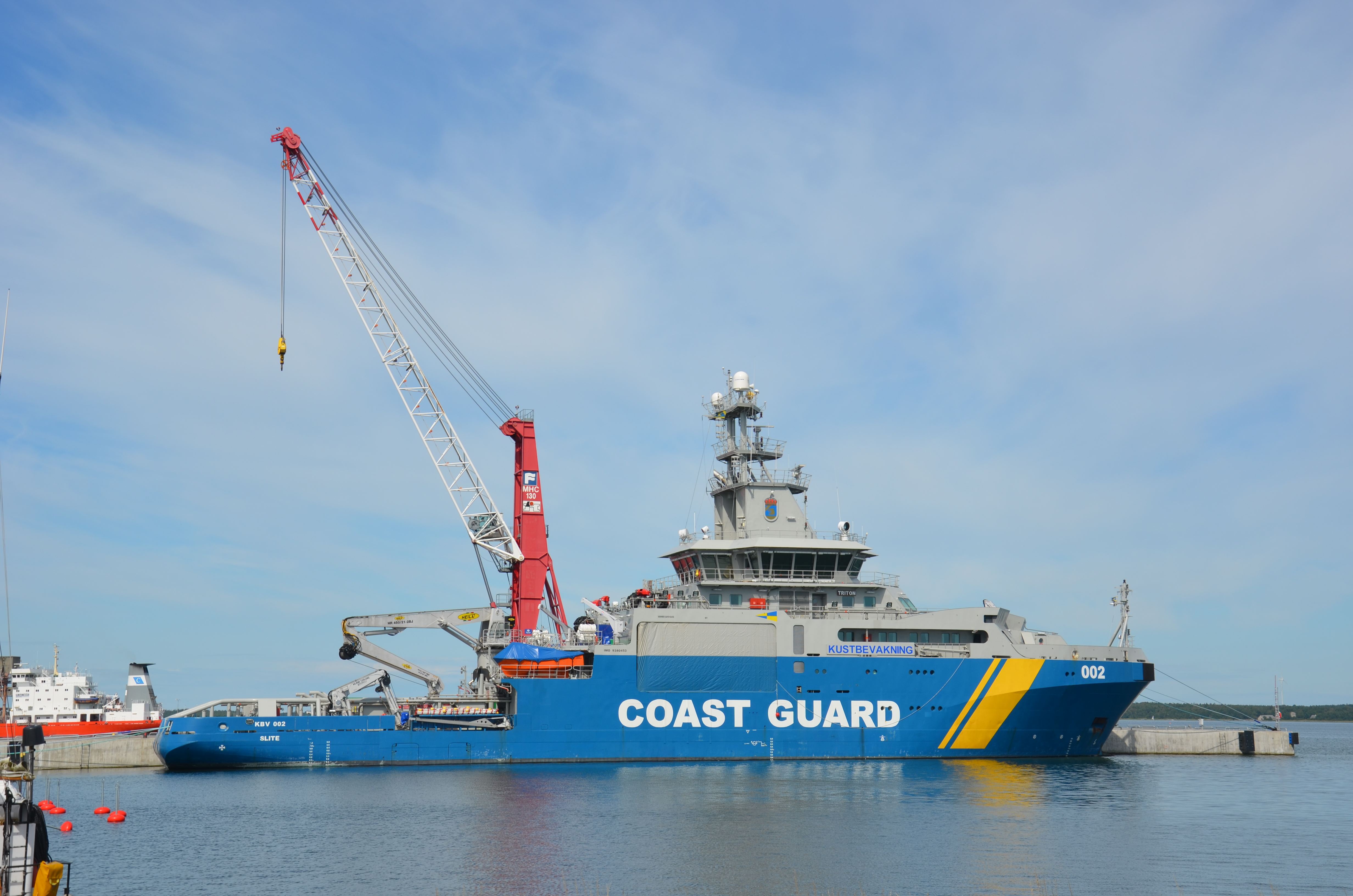 Swedish Coast Guard combination ship KBV 002 Triton